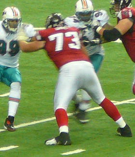 If used somewhere other than Wikipedia, Nelson, by name.